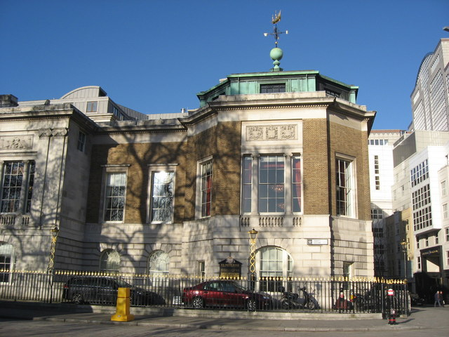 Trinity House, Trinity Square, EC3. Shows the location of 1106249.